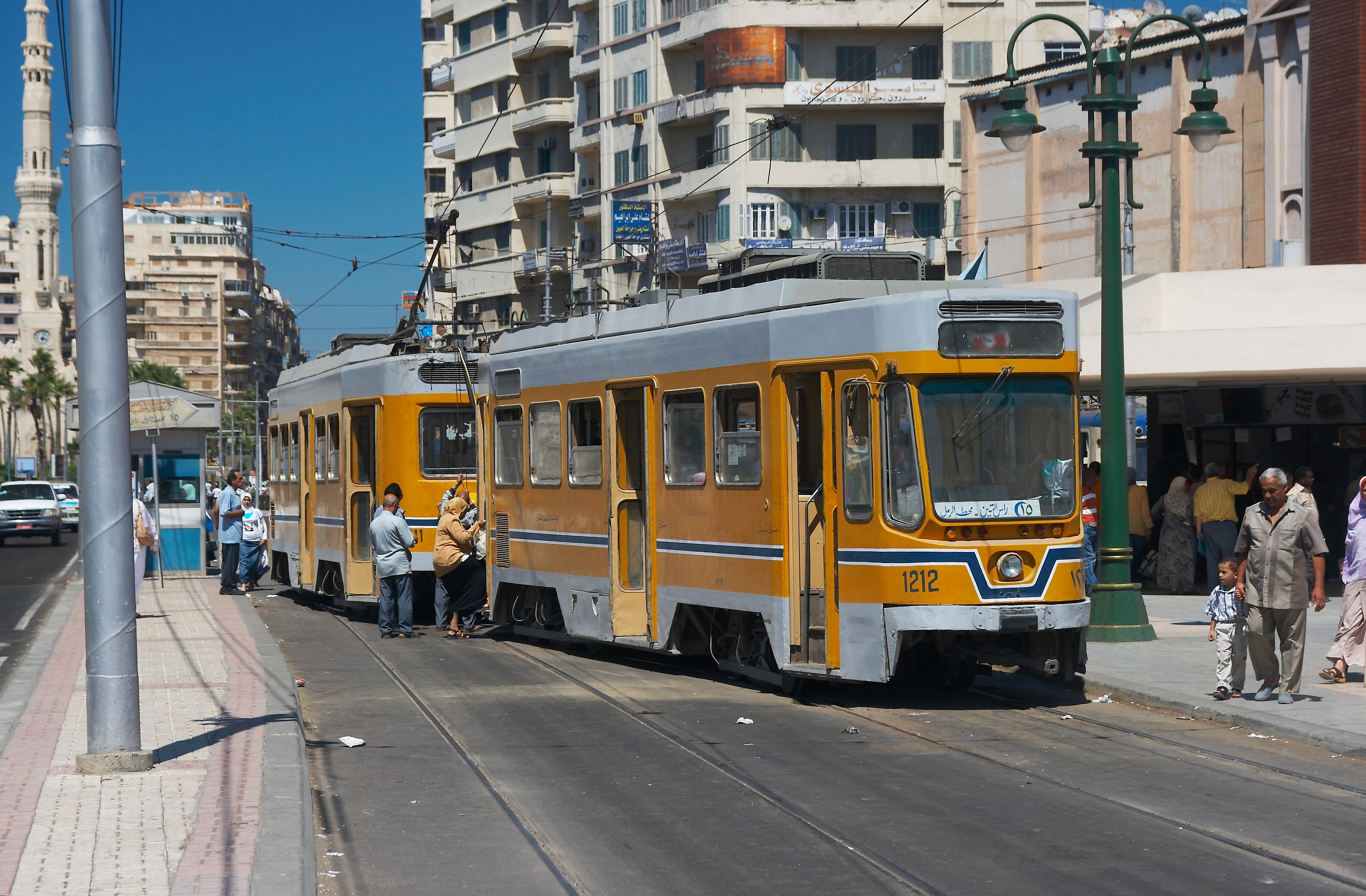 Ganz-built tram in Alexandria, Egypt.